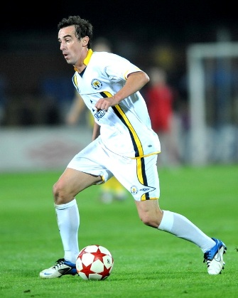 Đorđe Lazić is a Serbian football player